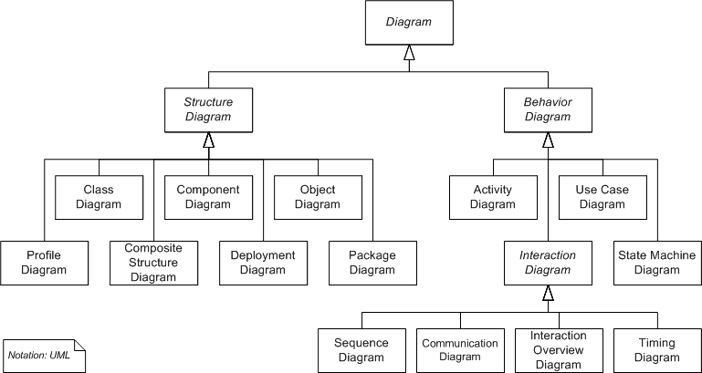 Hierarchy of diagrams in UML 2.2